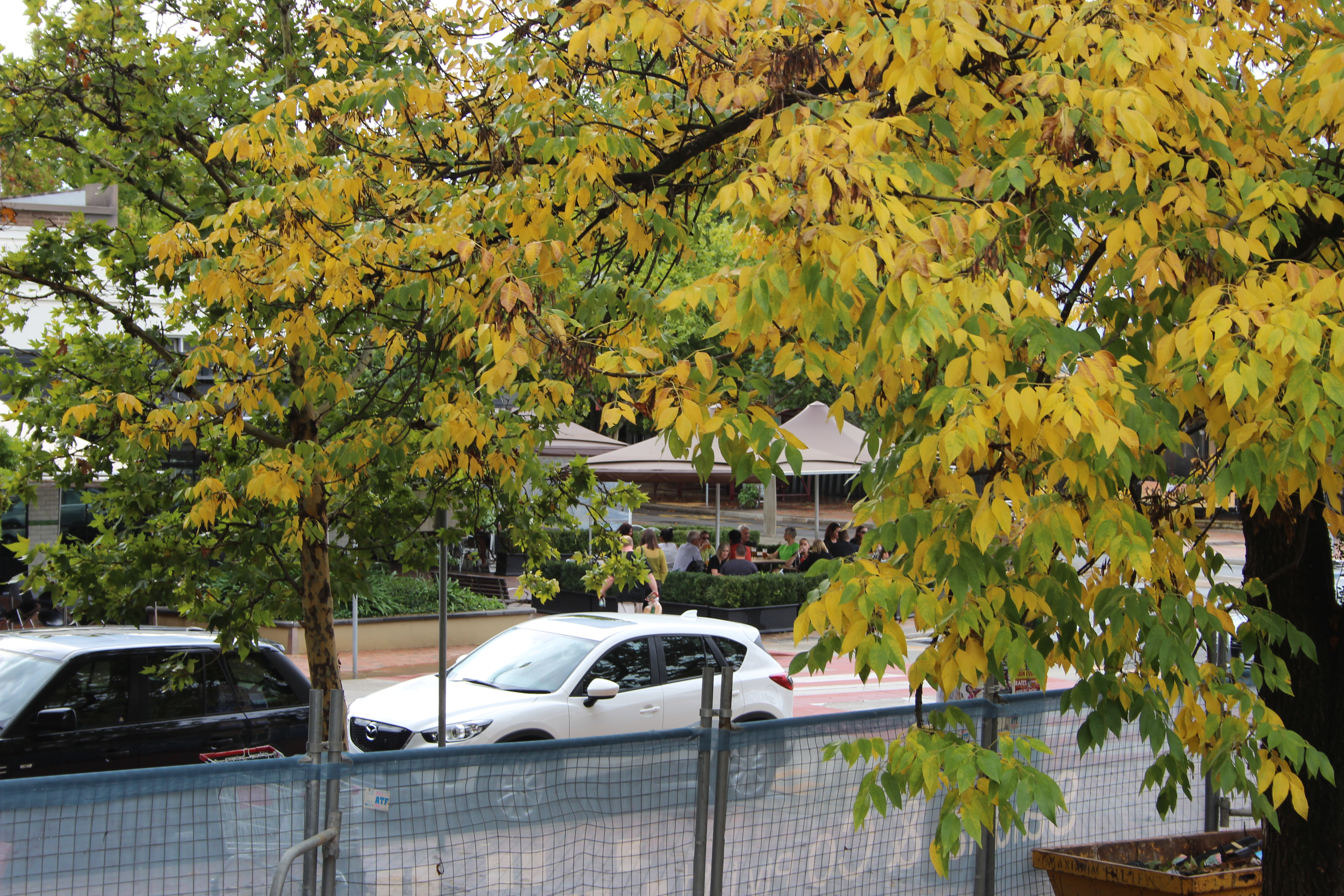 Manuka, Australian Capital Territory, Autumn leaves